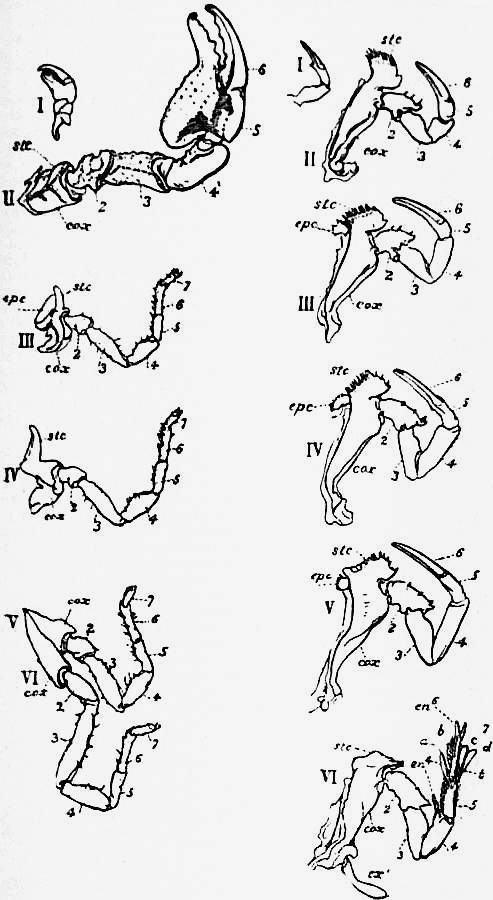 The prosomatic appendages of Limulus polyphemus (right) and Scorpio (left), Palamnaeus indus compared. The corresponding appendages are marked with the same Roman numeral. The Arabic numerals indicate the segments of the legs.cox, Coxa or basal segment of the leg.stc, The sterno-coxal process or jaw-like up-growth of the coxa.epc, The articulated movable outgrowth of the coxa, called the epi-coxite (present only in III of the scorpion and III, IV and V of Limulus).ex1, The exopodite of the sixth limb of Limulus.a, b, c, d, Movable processes on the same leg.(From Ray Lankester, Quart. Journ. Micr. Sci., vol. xxi., 1881.)